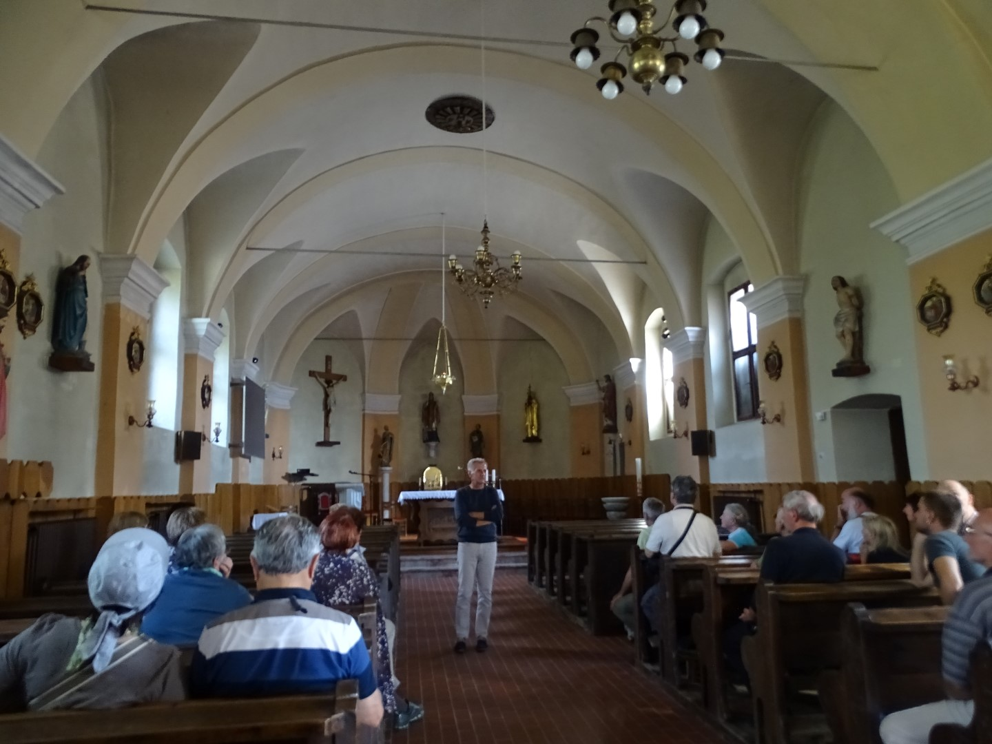 Kog - Church of St. Bolfenk - interier